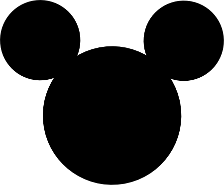 Basic geometrical representation of Mickey Mouse's head and ears